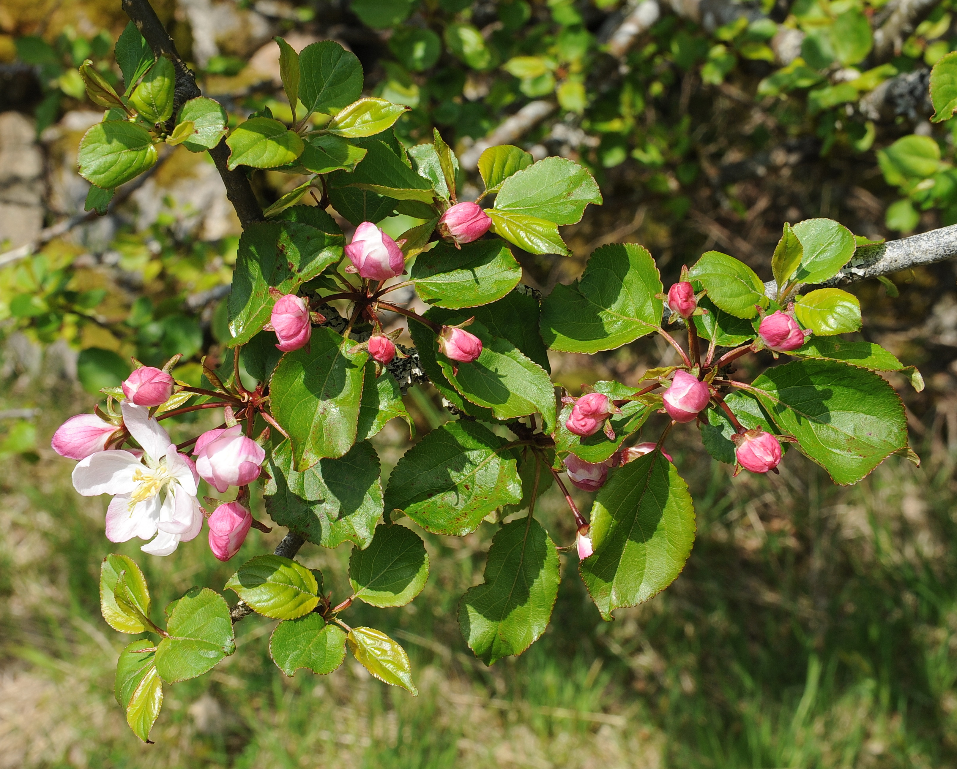 Bursting flowerbuds of crab apple (Malus sylevstris)